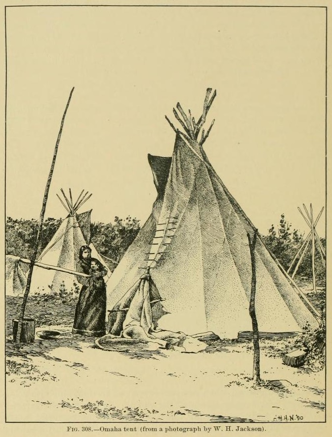 An Omaha tipi used during tribal hunts on the plains